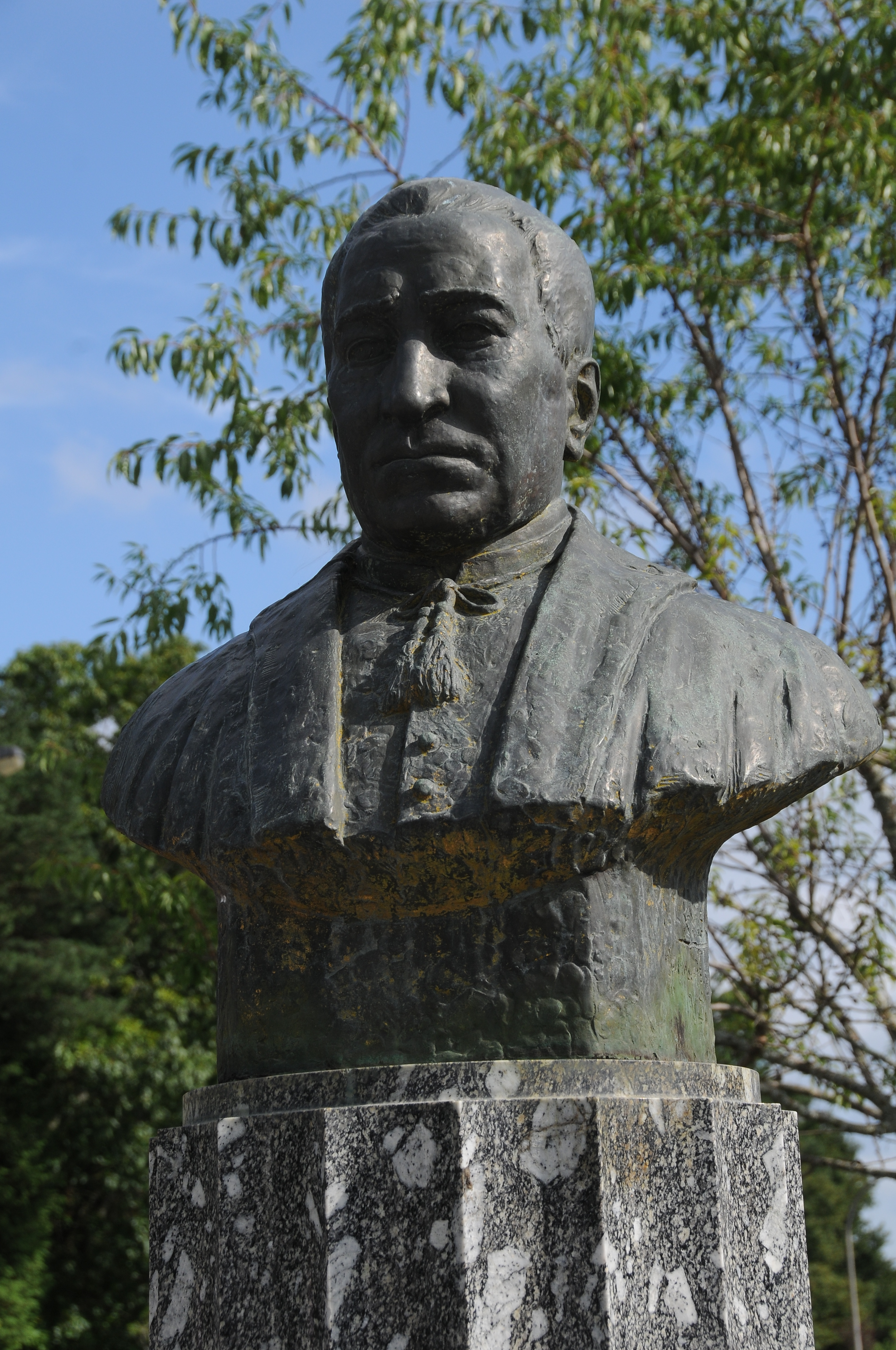 Sanctuary of Nossa Senhora do Sameiro, Braga, Portugal